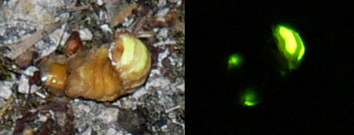 Firefly Lampyris noctiluca female - The same. Left : flash / Right : natural. Auteurs Jodelet/Lépinay